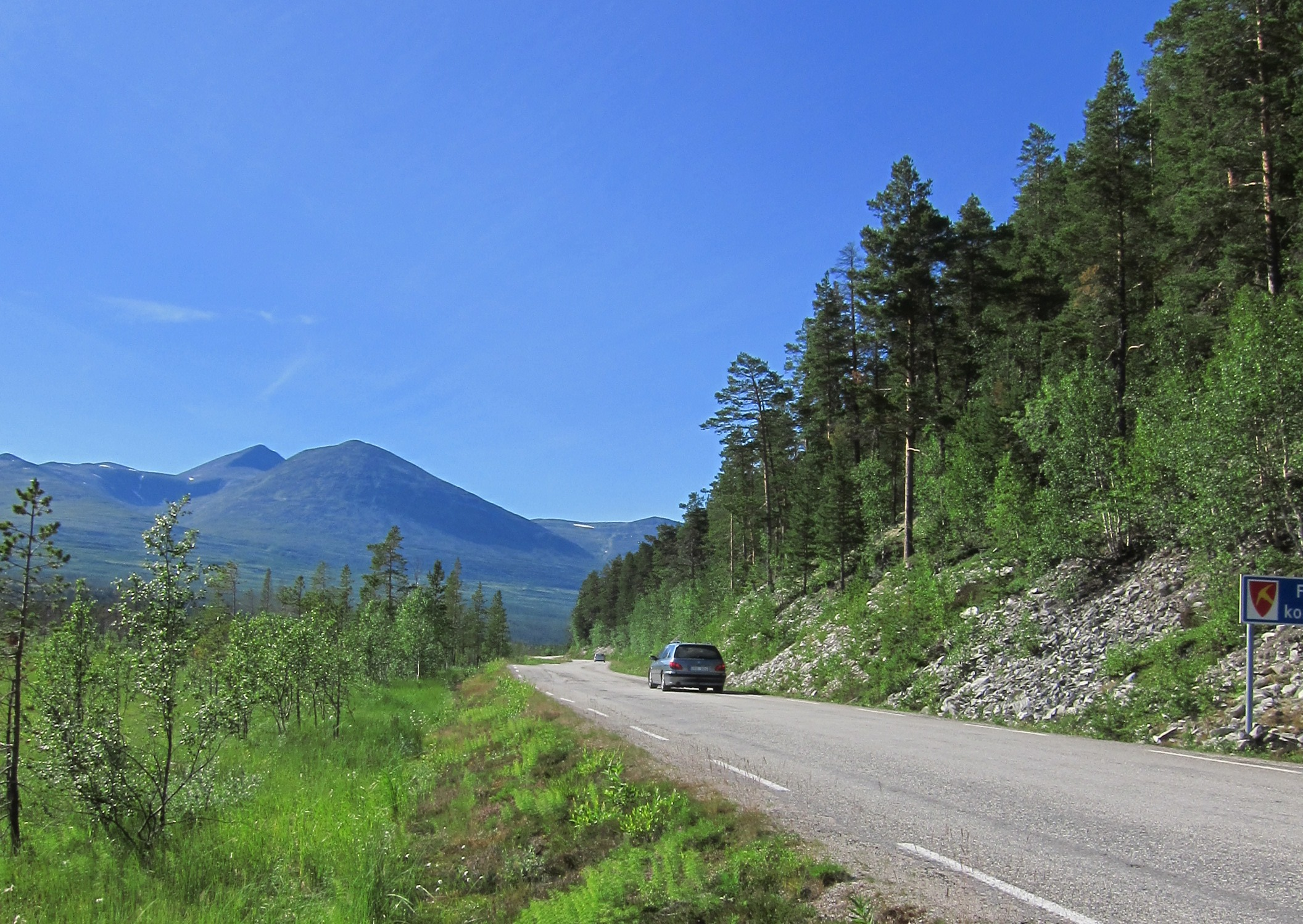 County road 27 at Atnsjømyrene, Hedmark county, Rondane behind